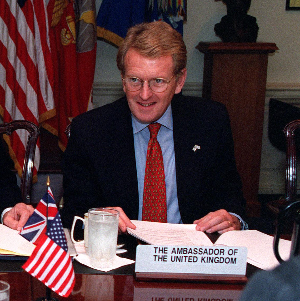 United Kingdom's Ambassador to the U.S. Christopher Meyer , meeting at the Pentagon with US Deputy Secretary of Defence Paul Wolfowitz on 24th October 2001.